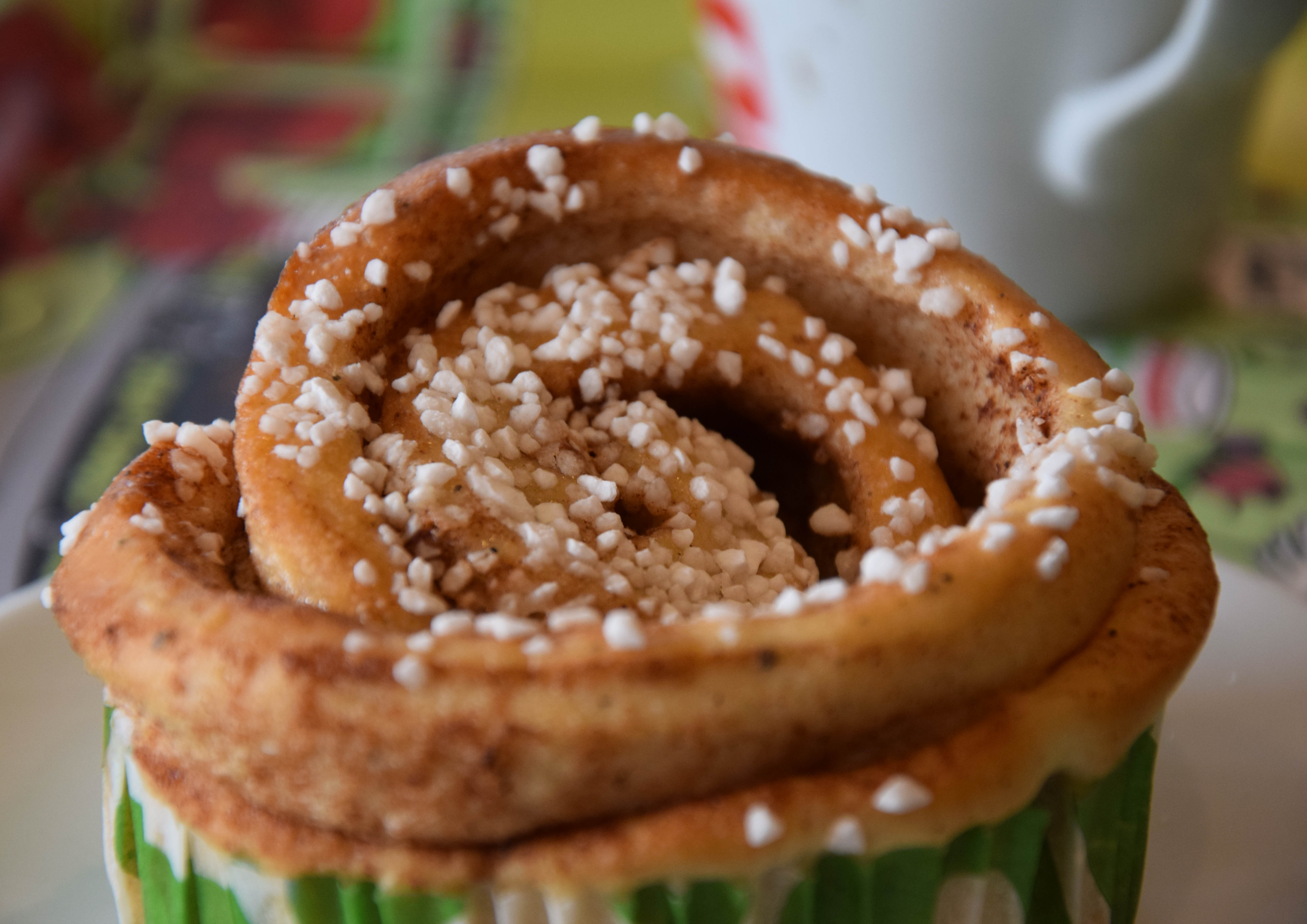 A Kanelbulle in Concedo Café in Malmö, Sweden.